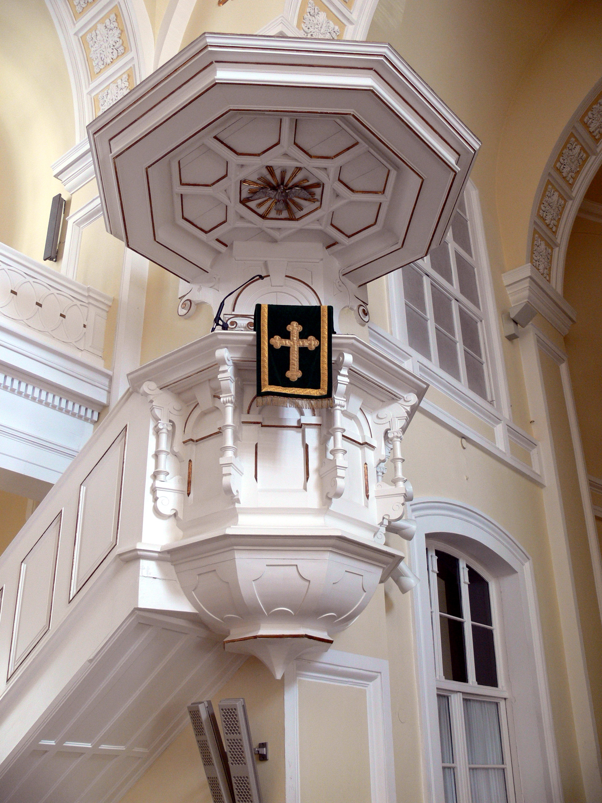 Martin-Luther-church in Linz ( Upper Austria ). Pulpit ( 1841-1844 )